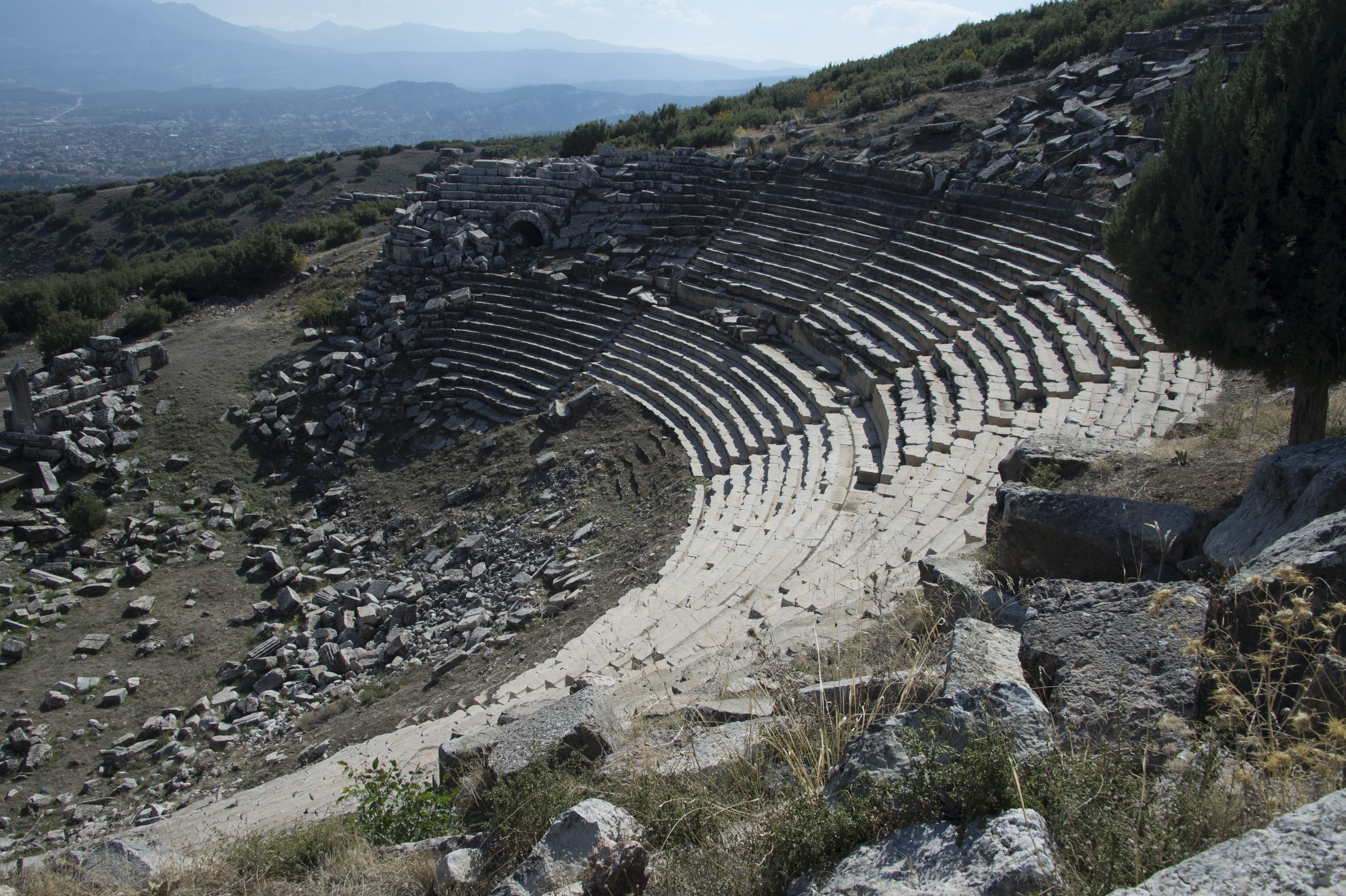 No further description